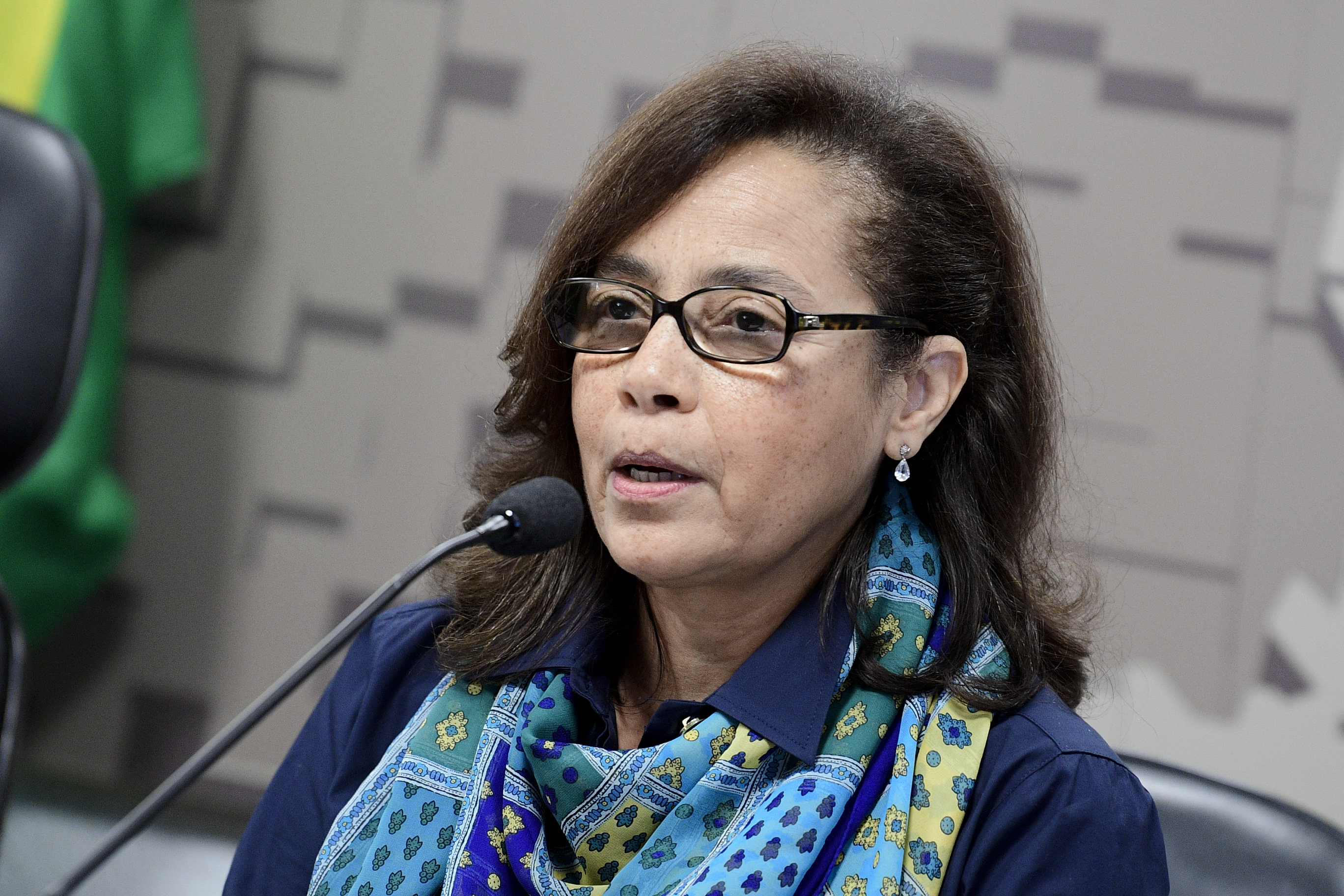 Brazilian Ambassador to Romenia.